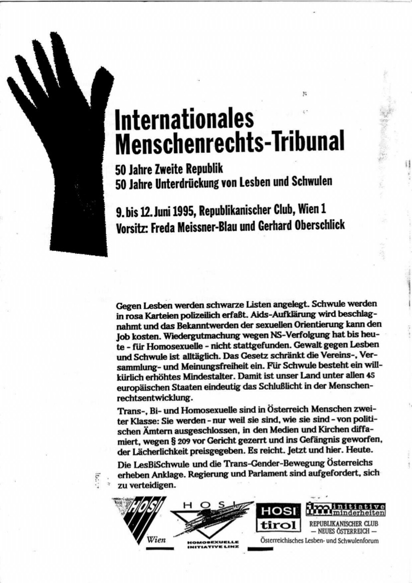 Folder of the International Human Rights Tribunal, June 1995, page 1